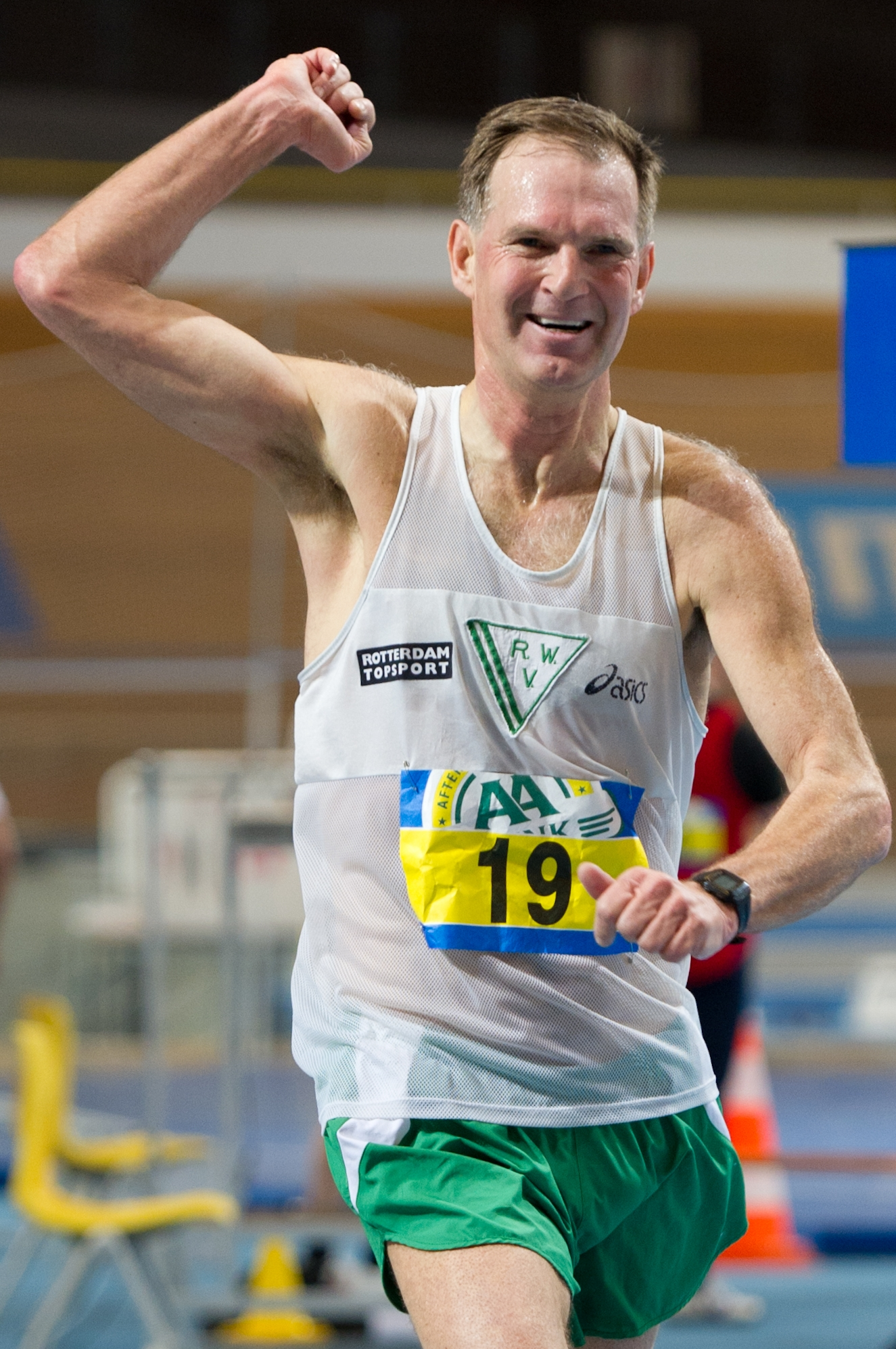 Harold van Beek, winning his 43rd Dutch title in race walking, Febr. 2011, Apeldoorn